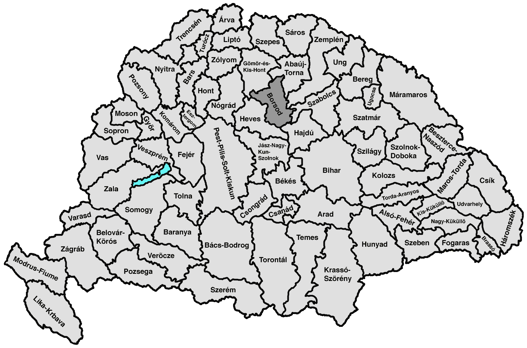 own edit of Image:Zala.png